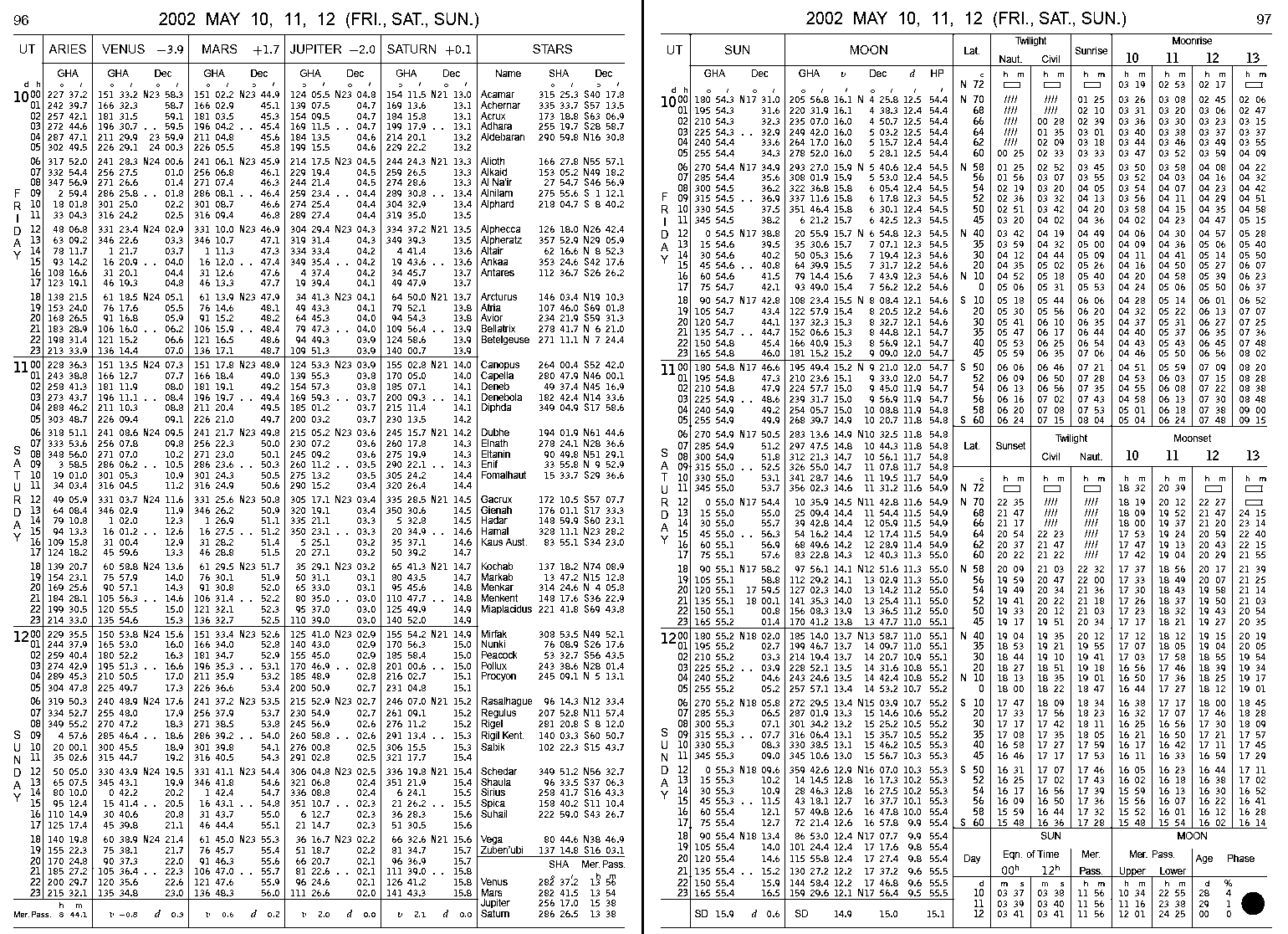 Two sample pages of the 2002 Nautical Almanac published by the U.S. Naval Observatory and sold by the Government Printing Office. Dos páginas de muestra del almanaque náutico para el año 2002 publicado por el gobierno de Estados Unidos.